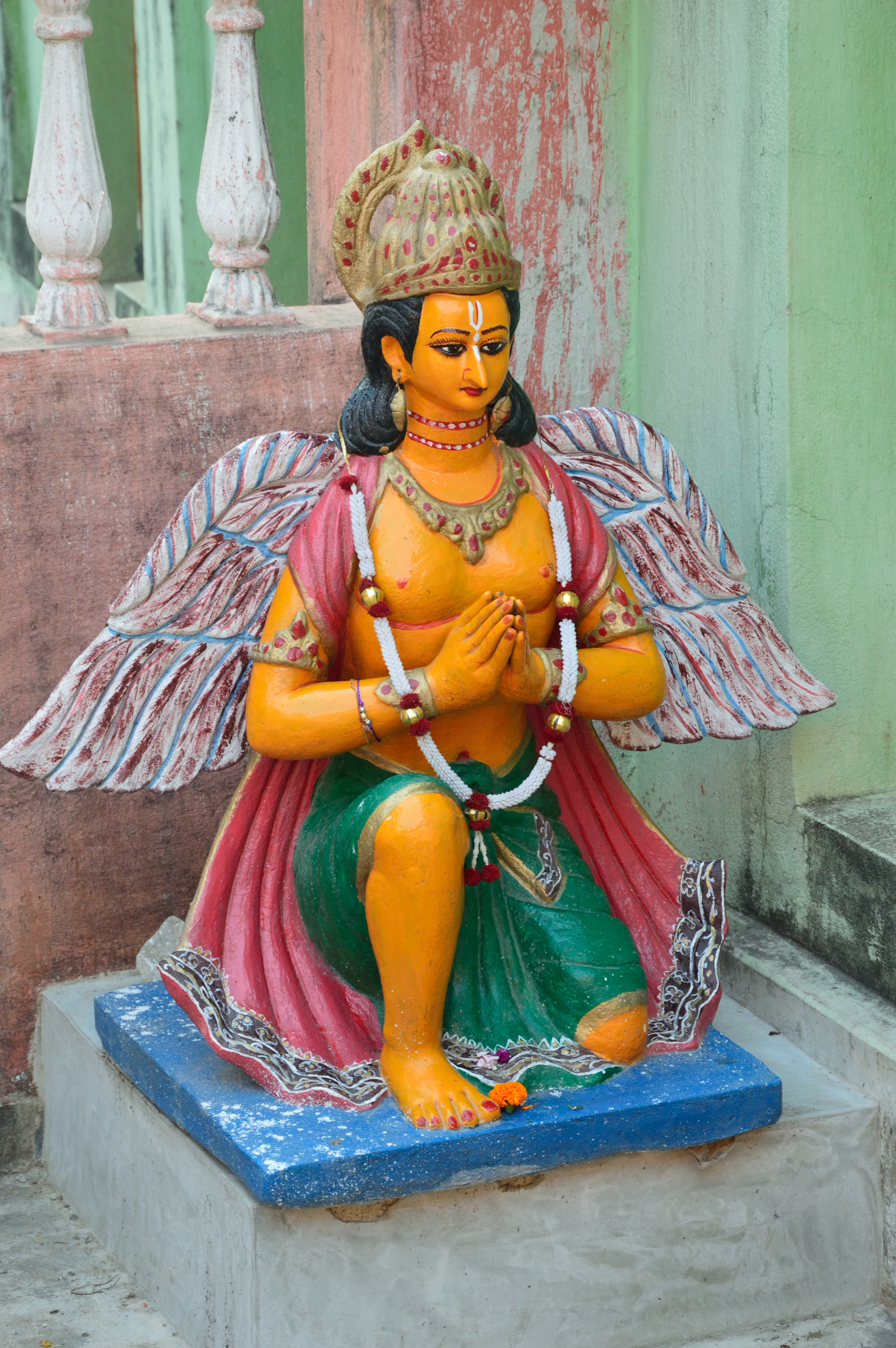 Photographed in Kolkata.l